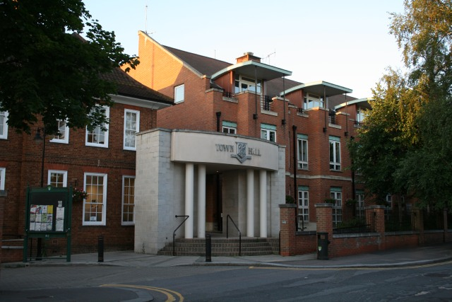 Town Hall, The Parade The town hall for Epsom and Ewell Borough Council, tucked away in The Parade behind the High Street.